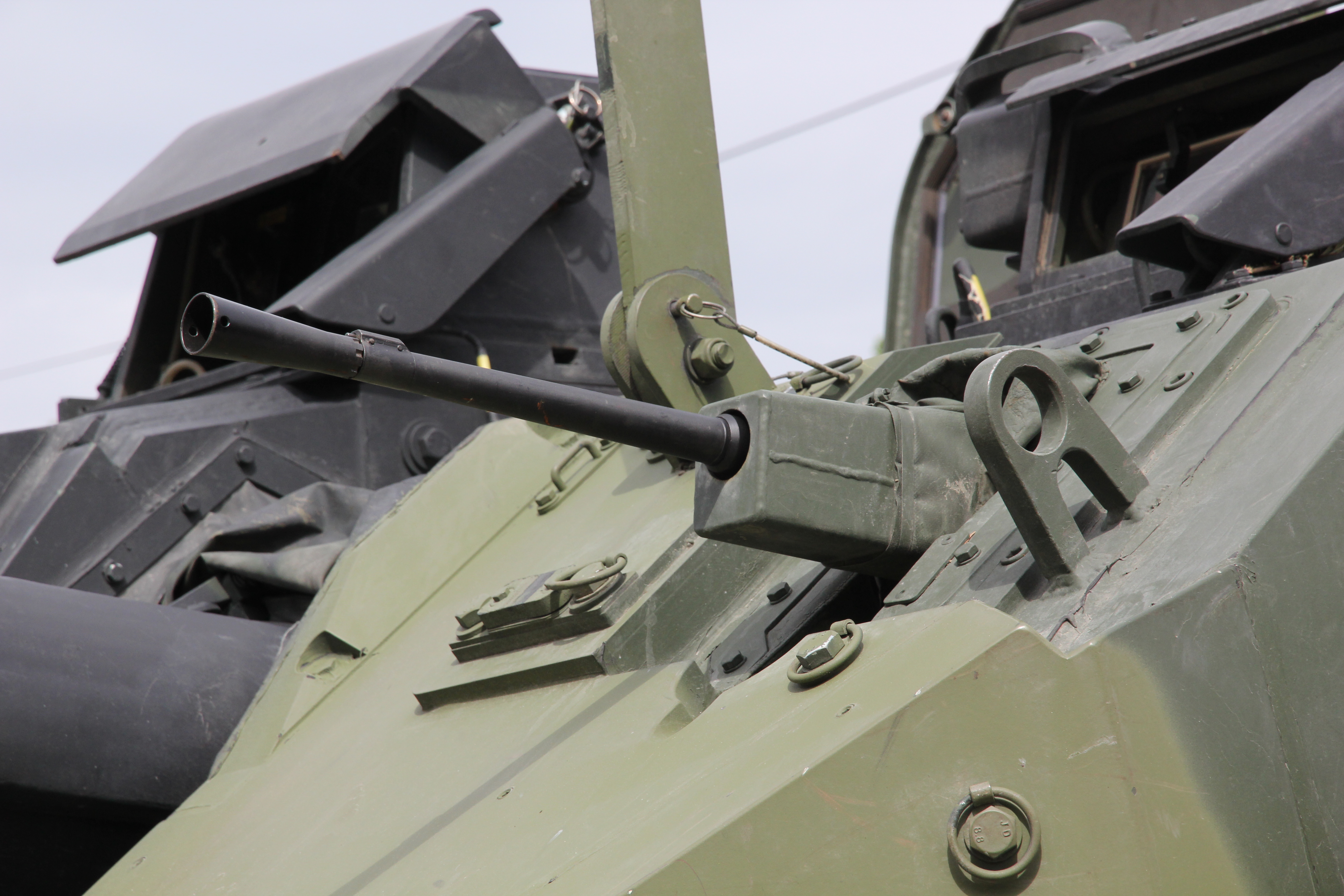 7.62 mm (Ksp m/39) co-axial machine gun of CV9030 (Ps 171-79) infantry fighting vehicle on display during Finnish Defence Forces 2014 Flag day in Lappeenranta Rakuunanmäki.